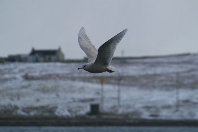 Iceland Gull (Larus glaucoides) A scarce winter visitor to Britain, which breeds in Greenland and not Iceland.